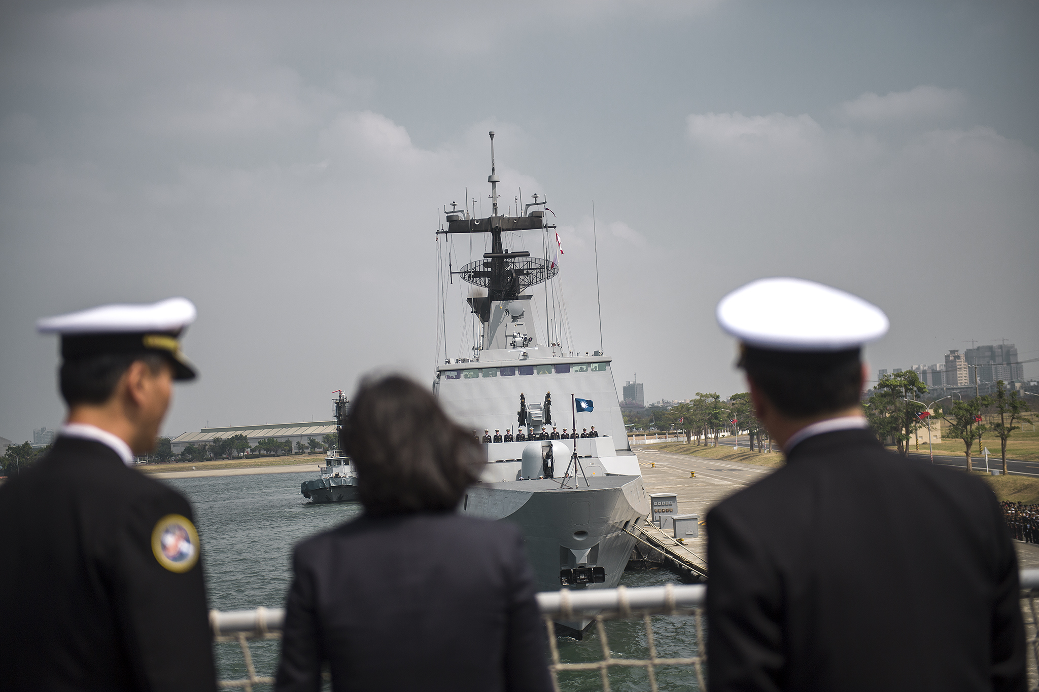 授權方式及範圍：中華民國總統府│政府網站資料開放宣告 Authorization Method & Scope: Office of the President, Republic of China (Taiwan) | Government Website Open Information Announcement